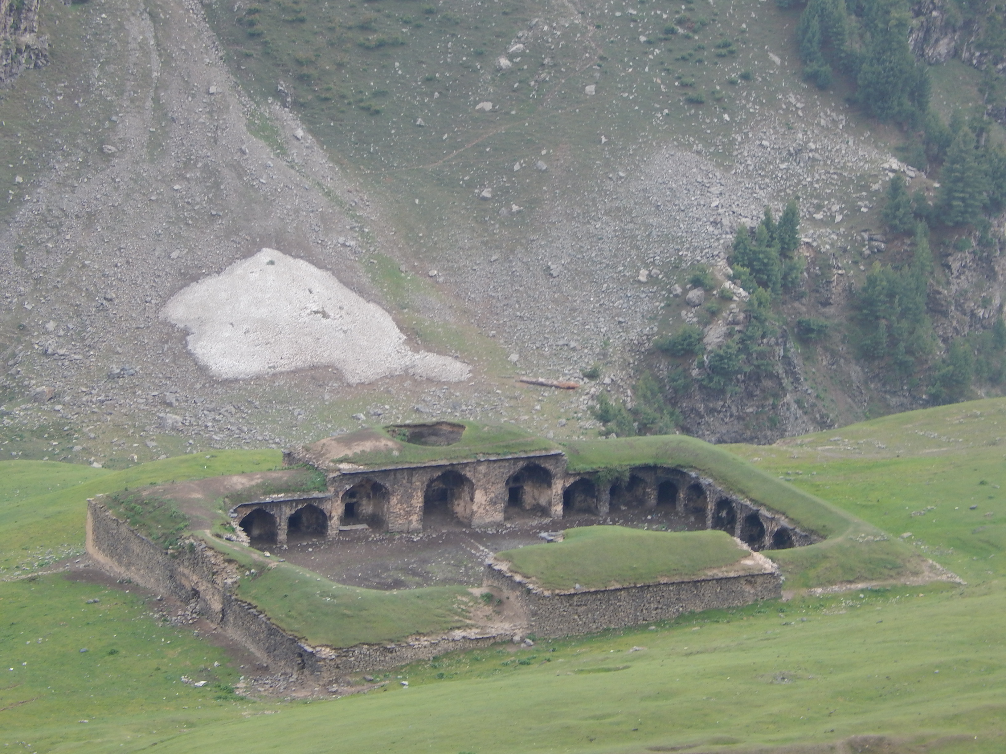 This is Great Mughal Saraye which is Situated at Mughal road way of Peer Ki Gali in Kashmir, India. which was built by Mughal King Shah Jaha for his rest.